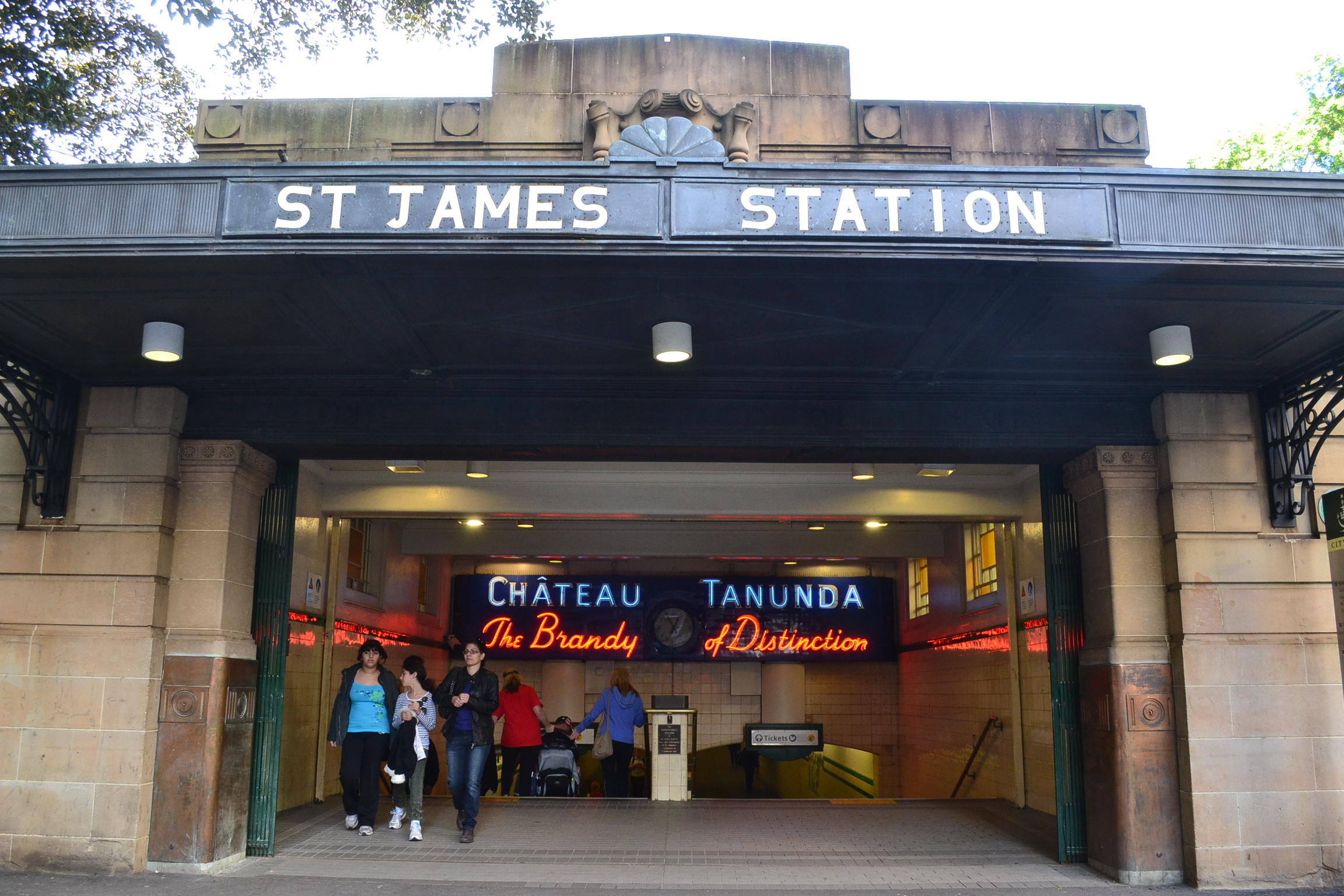 st james station, sydney